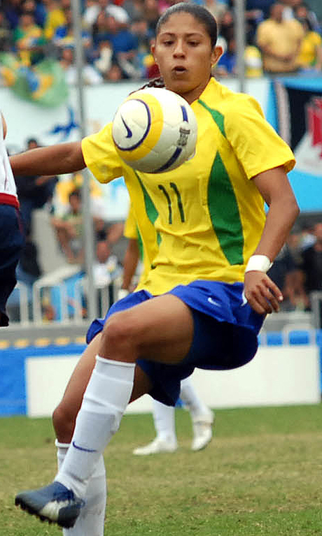 Rio de Janeiro - Cristiane during the final of the Pan-American Games 2007, cropped from File:Women's football final at 2007 Pan Ams.jpg